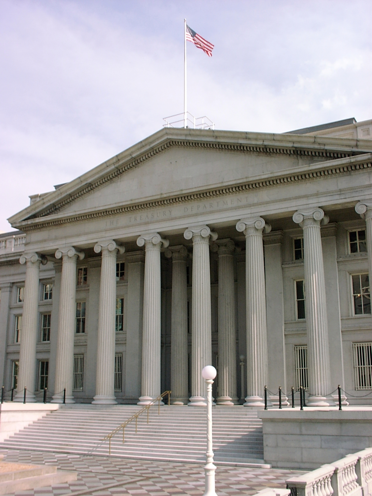 U.S. Department of Treasury headquarters in Washington, D.C.